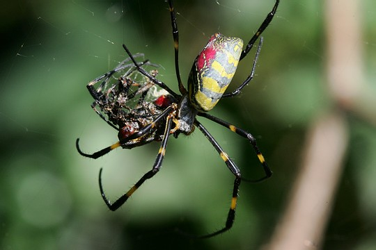 there were many many silk spiders on SARUSHIMA(YOKOSUKA). some of them had cannibalized to survive.cannibalization(silk spider)